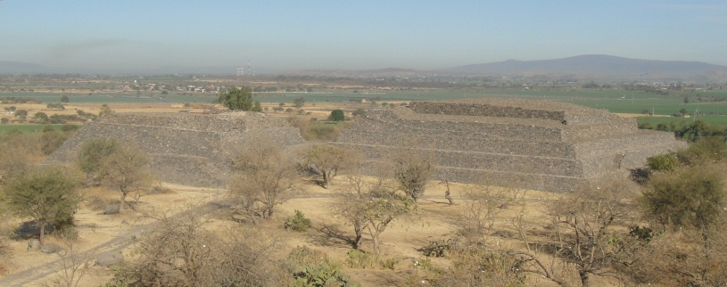 Peralta Double Structure